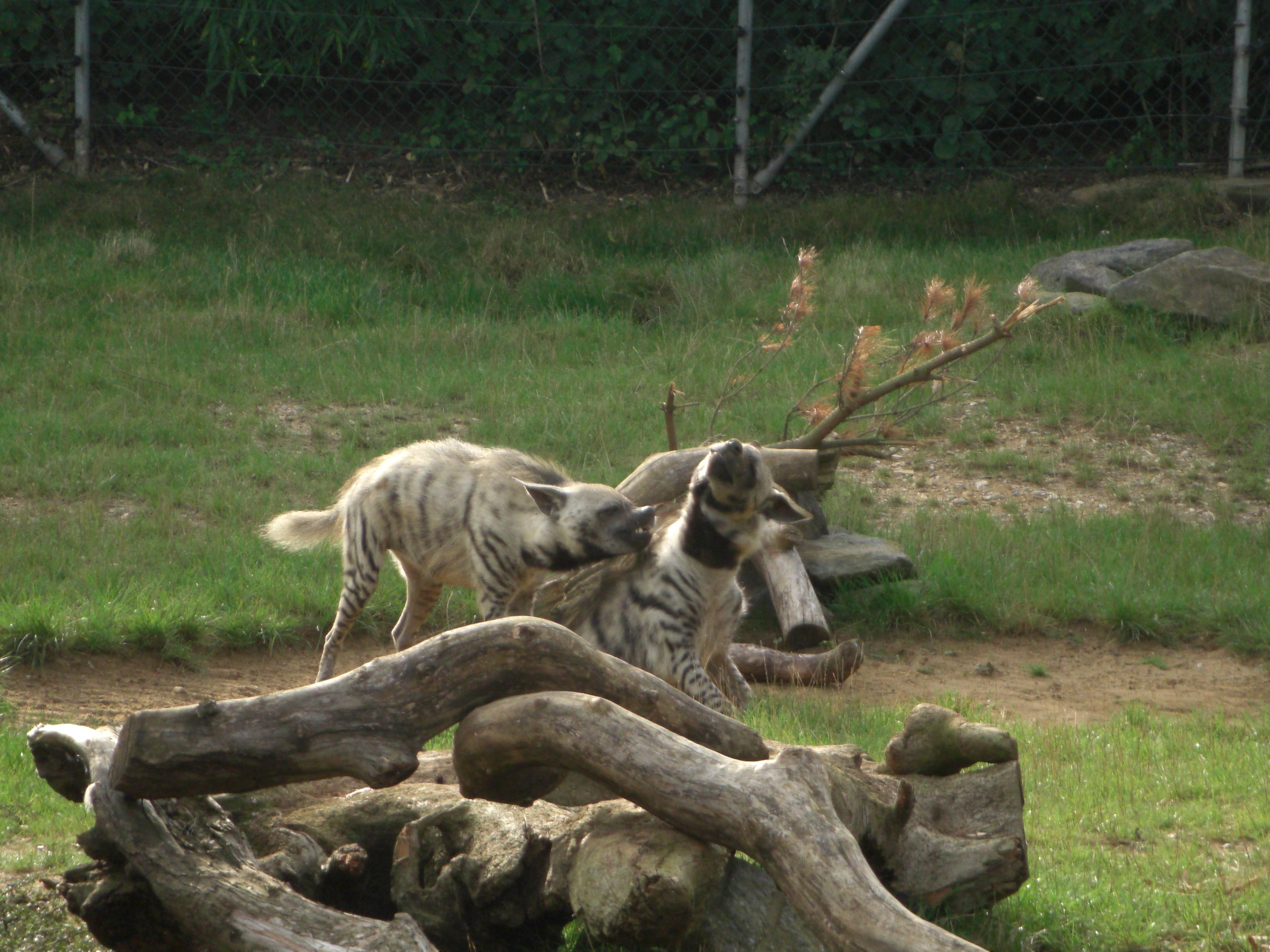 A depiction of two hyenas fighting at Colchester Zoo.